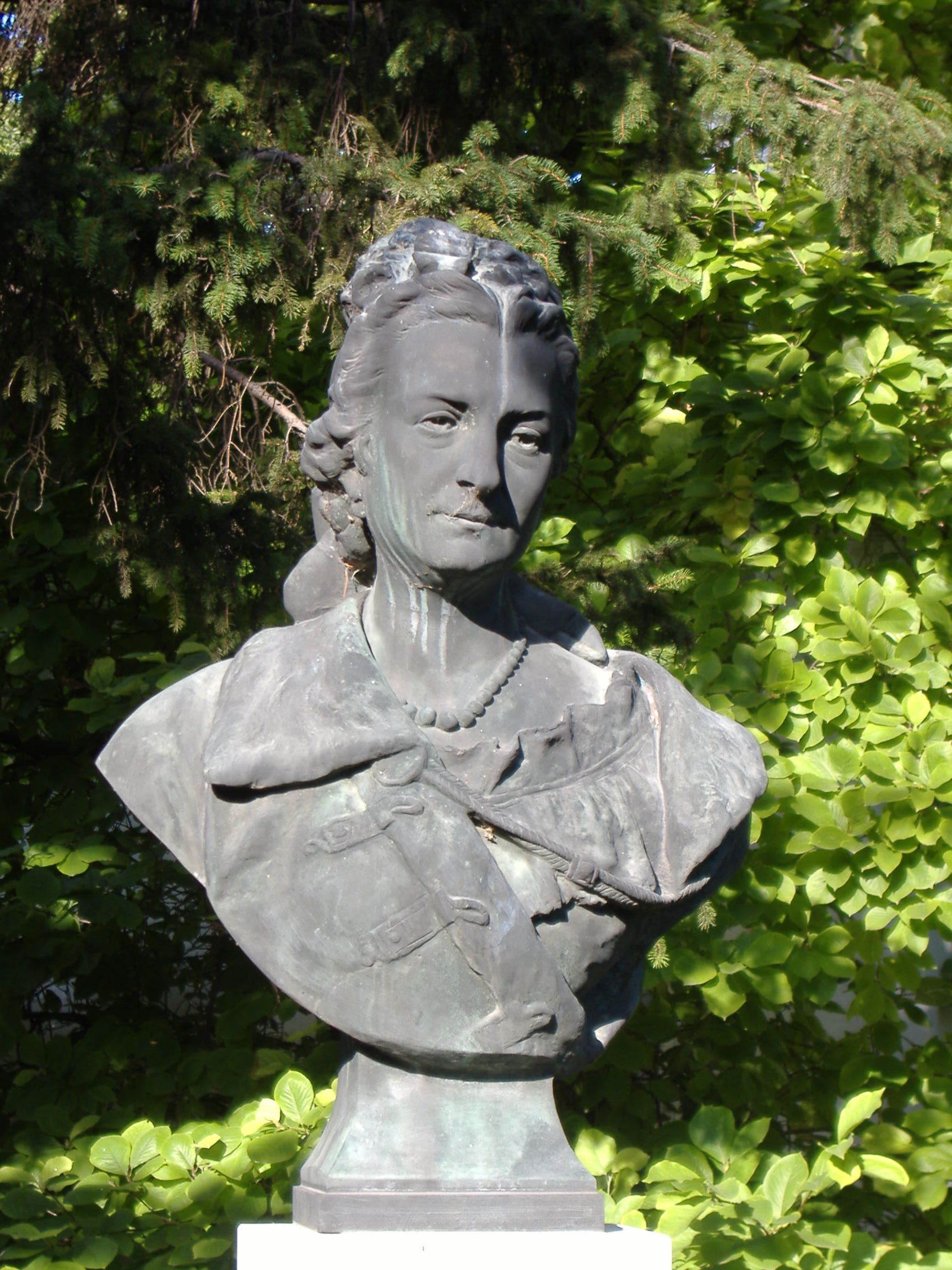 Statue of Kornélia Hollósy, Hungarian actress in Makó, Hungary.